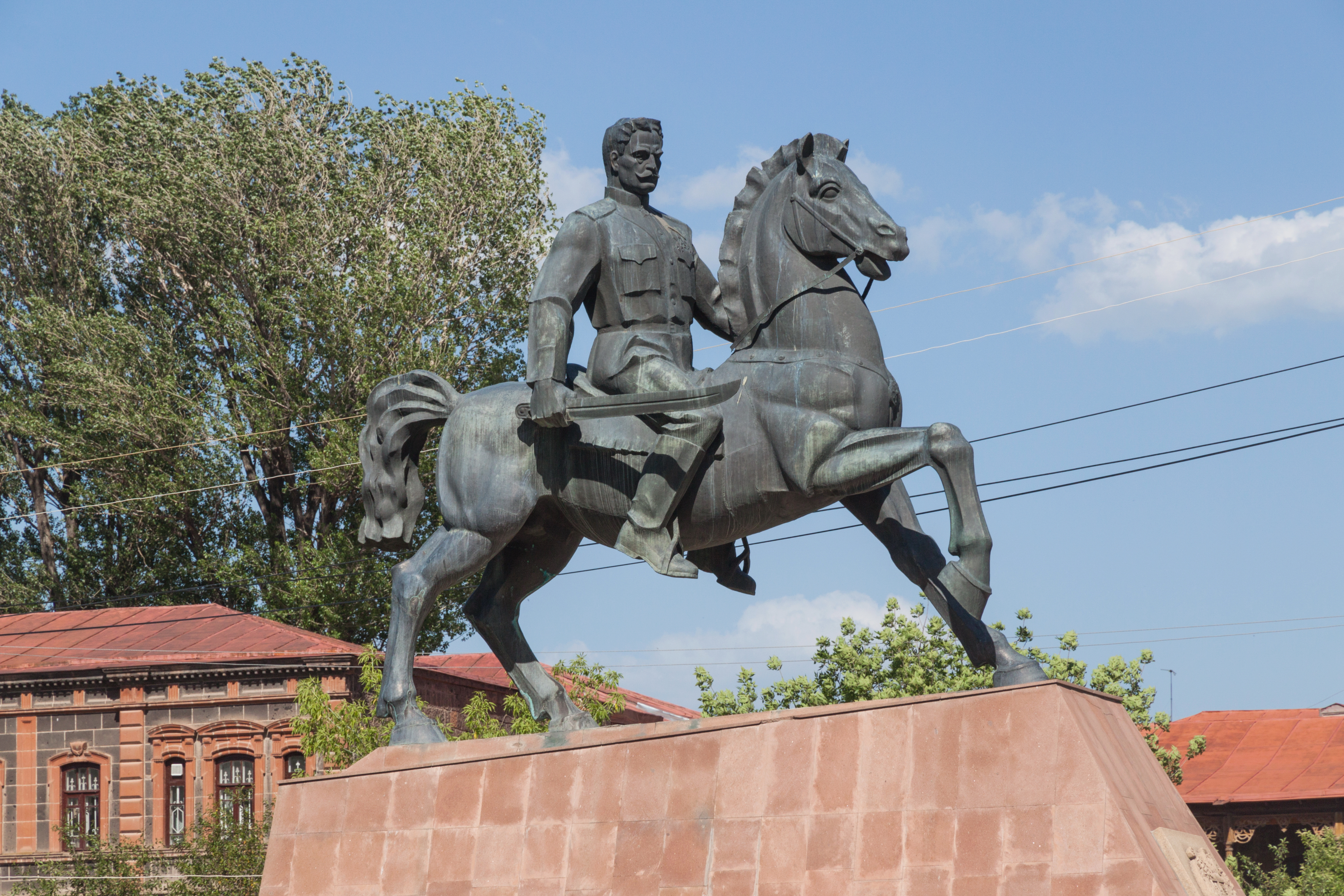 Monument of general Andranik Ozanian. Gyumri, Shirak Province, Armenia.